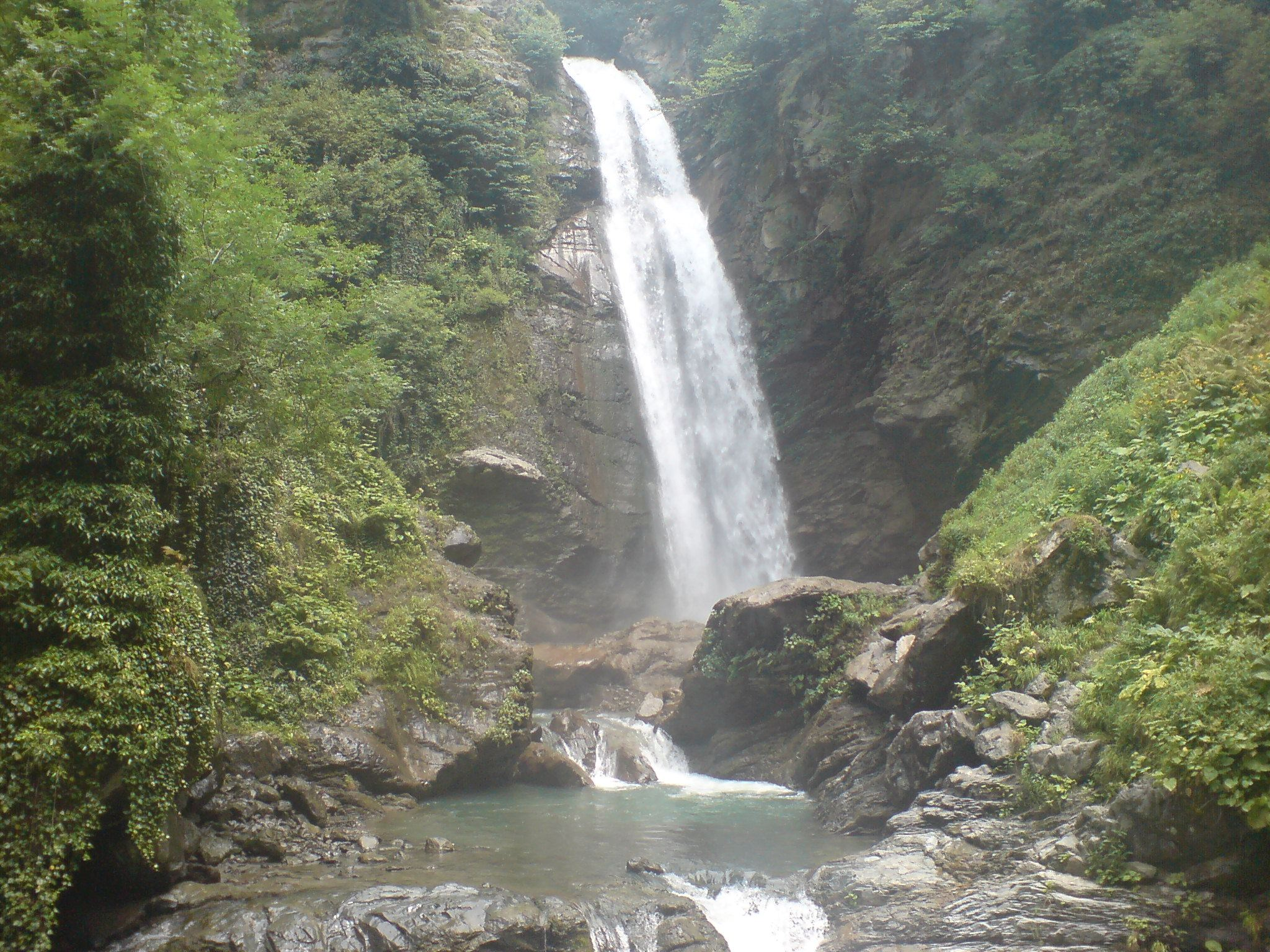 Lagodekhi protected areas, Georgia